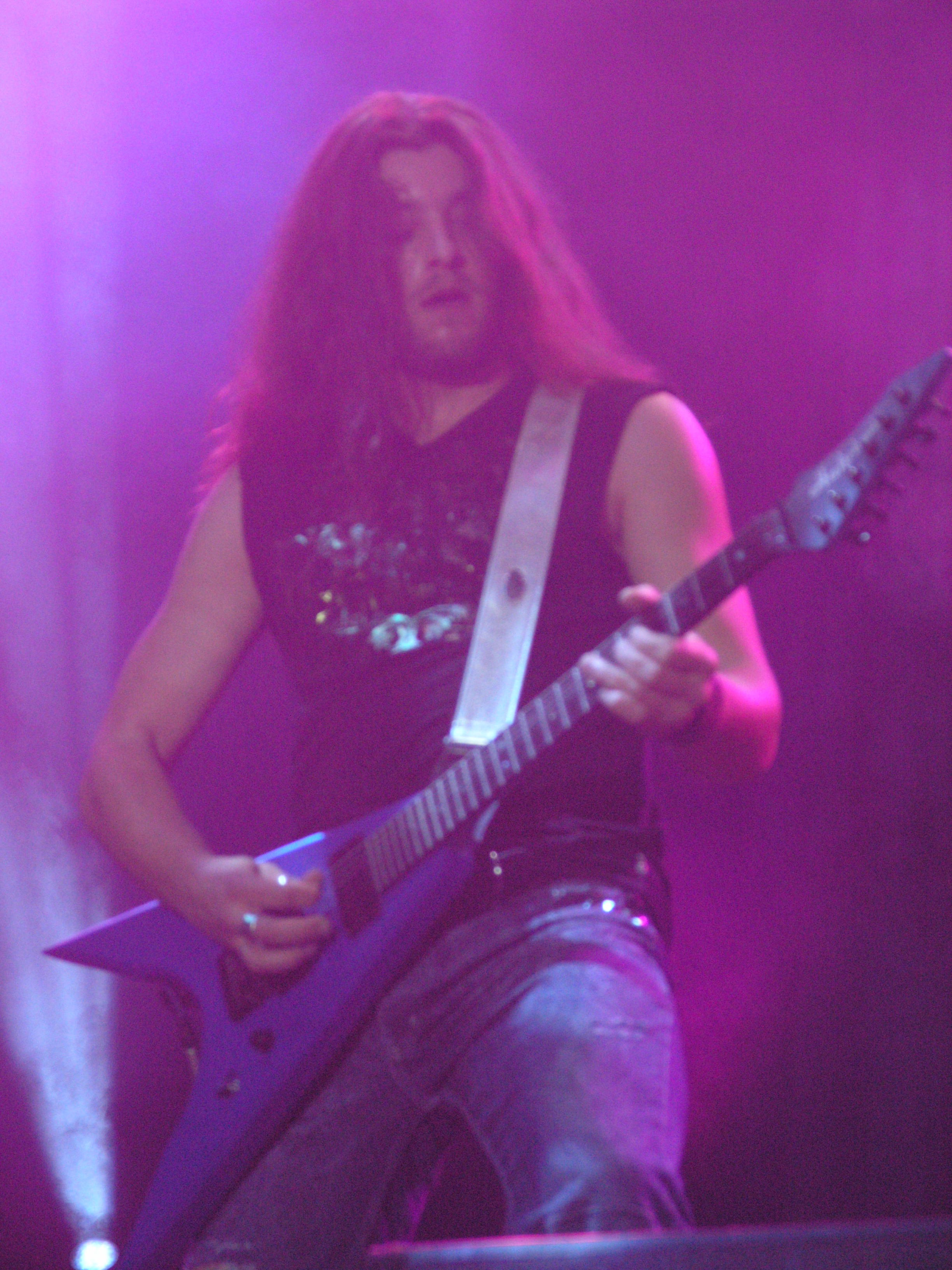 Bas Maas from After Forever during Masters of Rock 2007 festival